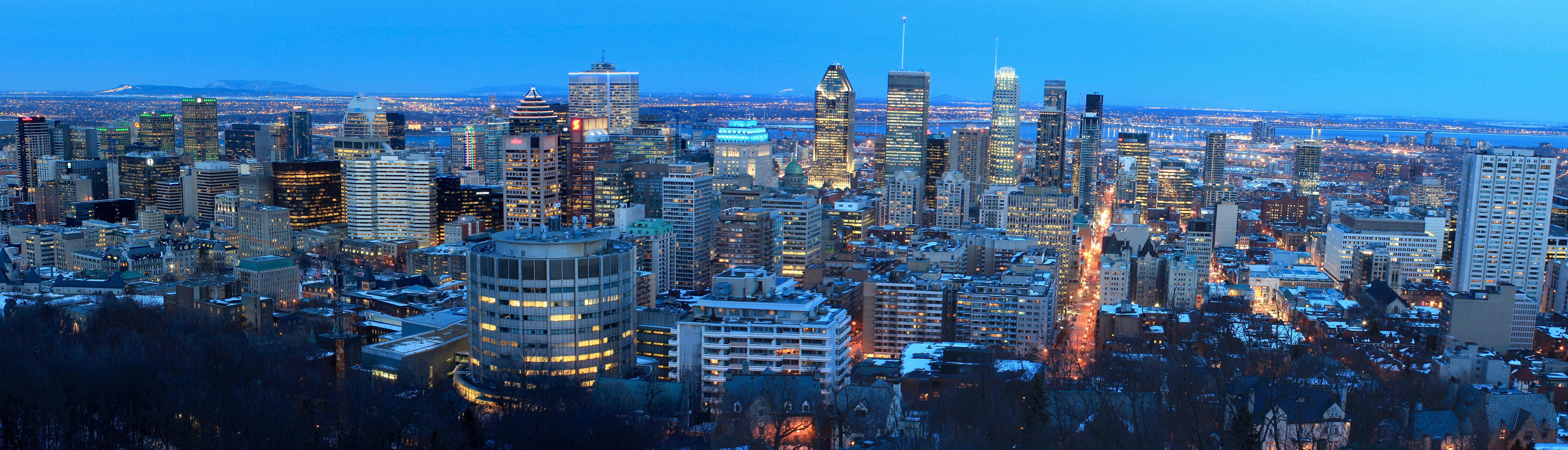 Panorama of Montreal downtown, taken from the Chalet du Mont Royal at the top of Mount Royal in Montreal. It is a three segment panorama taken with a Canon 600D and EF-S 18-55mm IS at 24mm and f/8 and 2 or 3.2 sec exposure time.